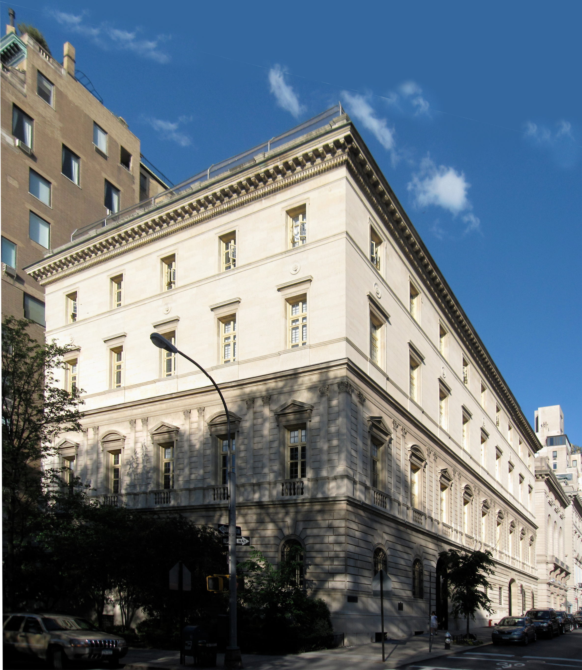 Otto Kahn Mansion